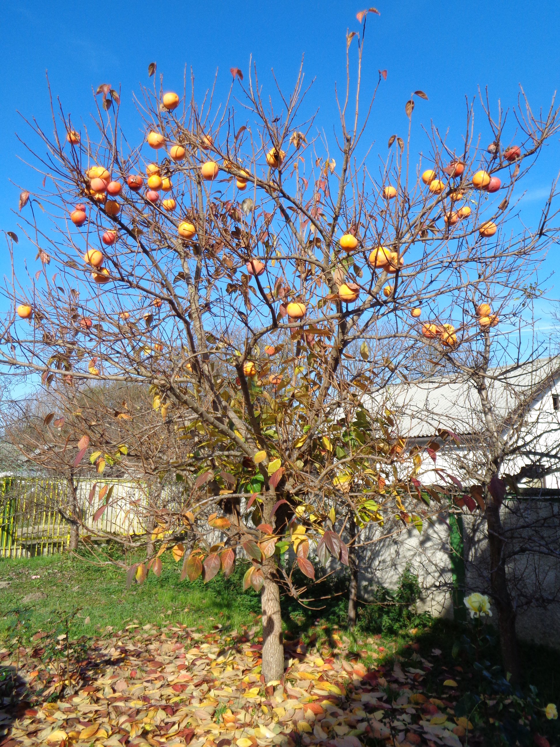 Kaki tree in autumn, grown in Medjimurje County, northern Croatia